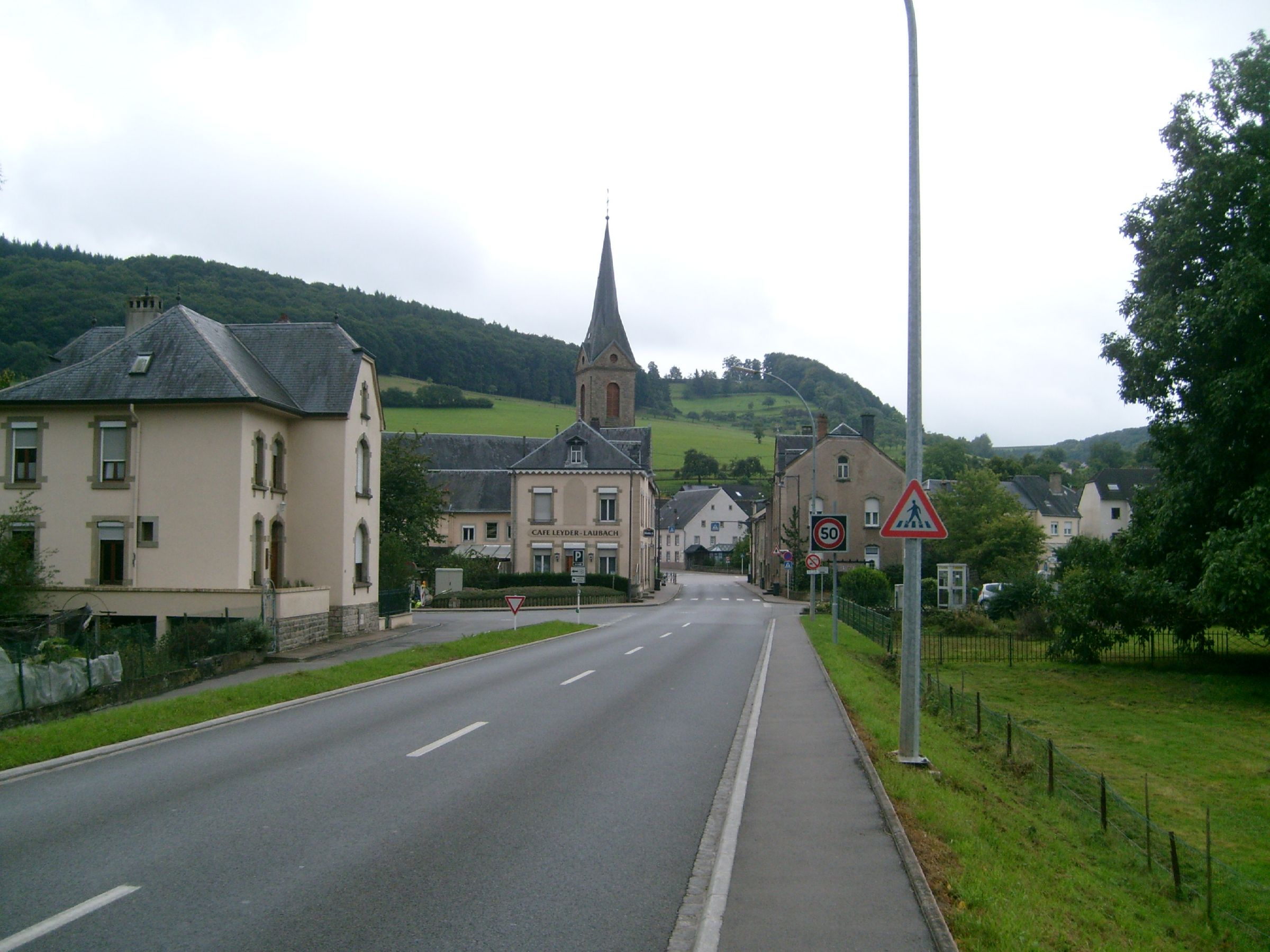 The village of Gilsdorf, Luxembourg. View from north, from the road to the bridge over the river Sure.